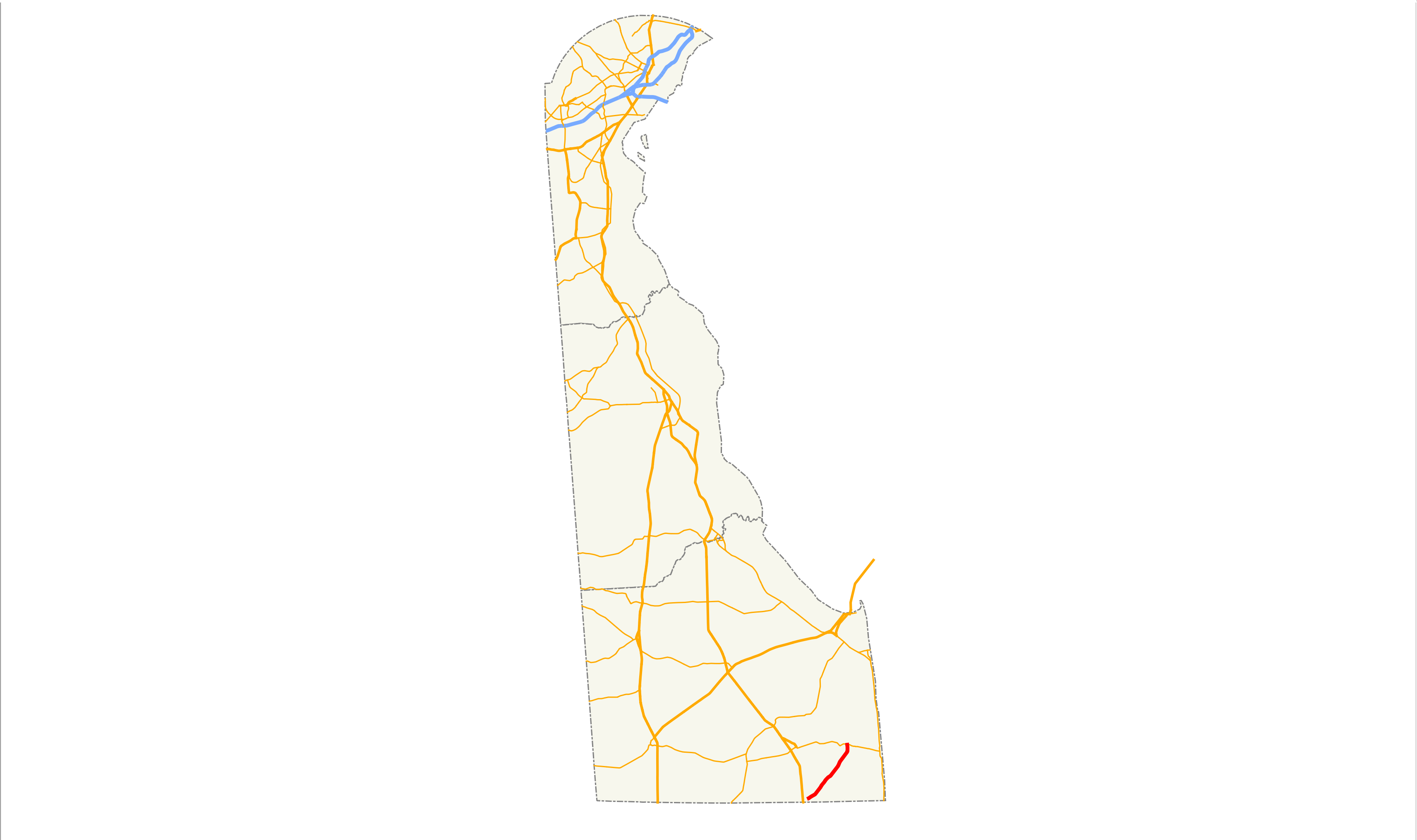 Map of Delaware Route 17.